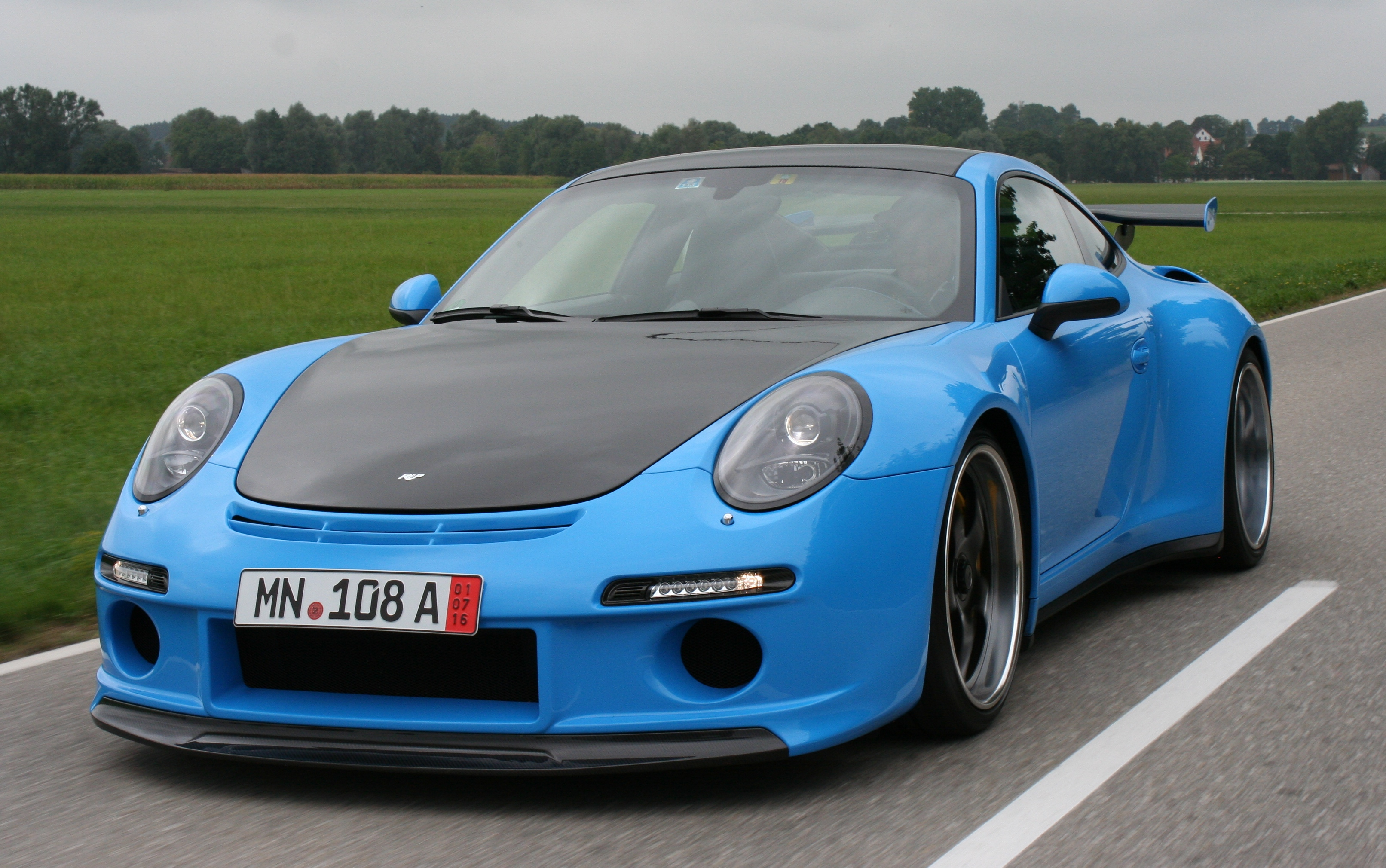 Blue Ruf RTR widebody rolling shot